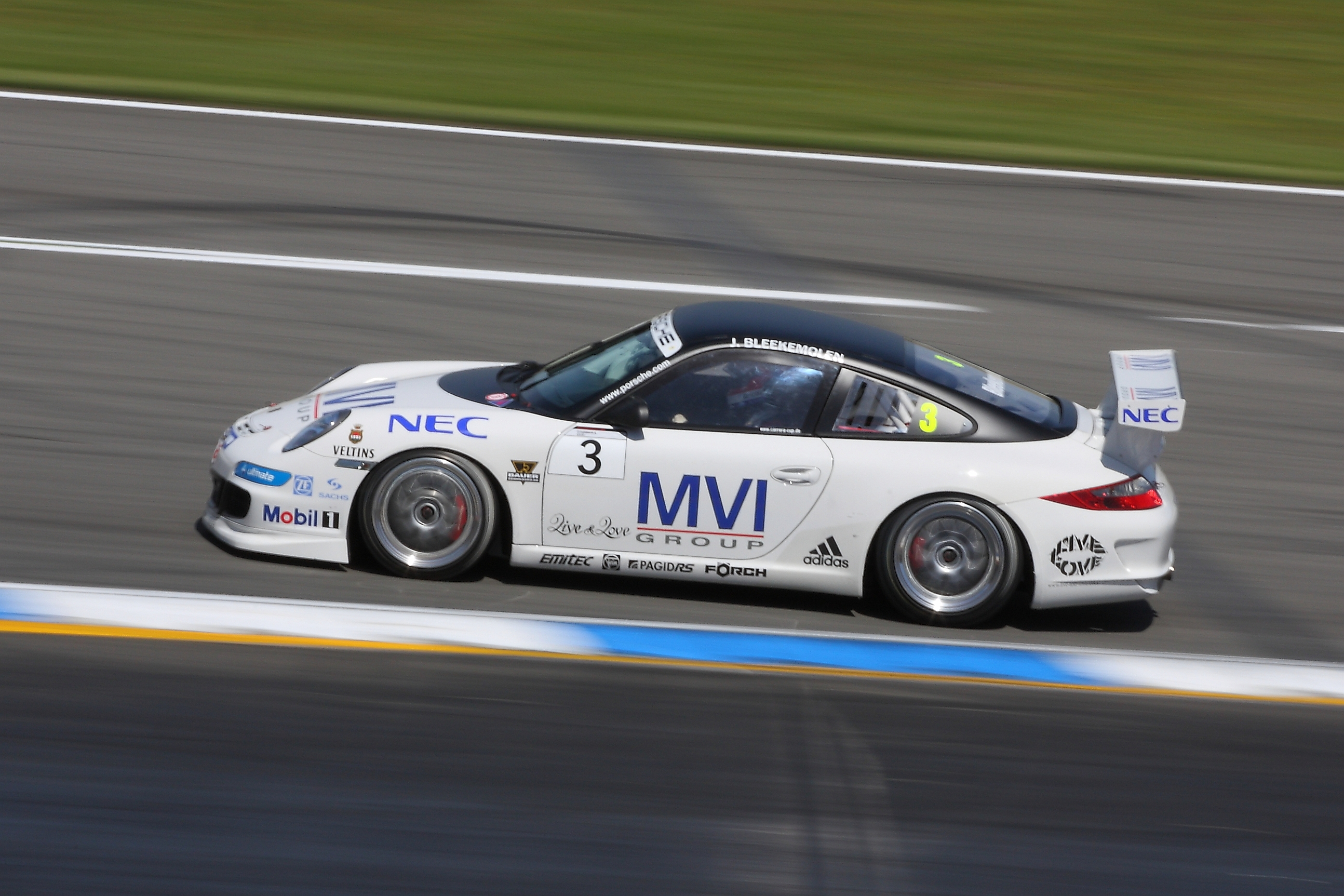 Porsche racing car at Hockenheim Ring, Jeroen Bleekemolen (driver).